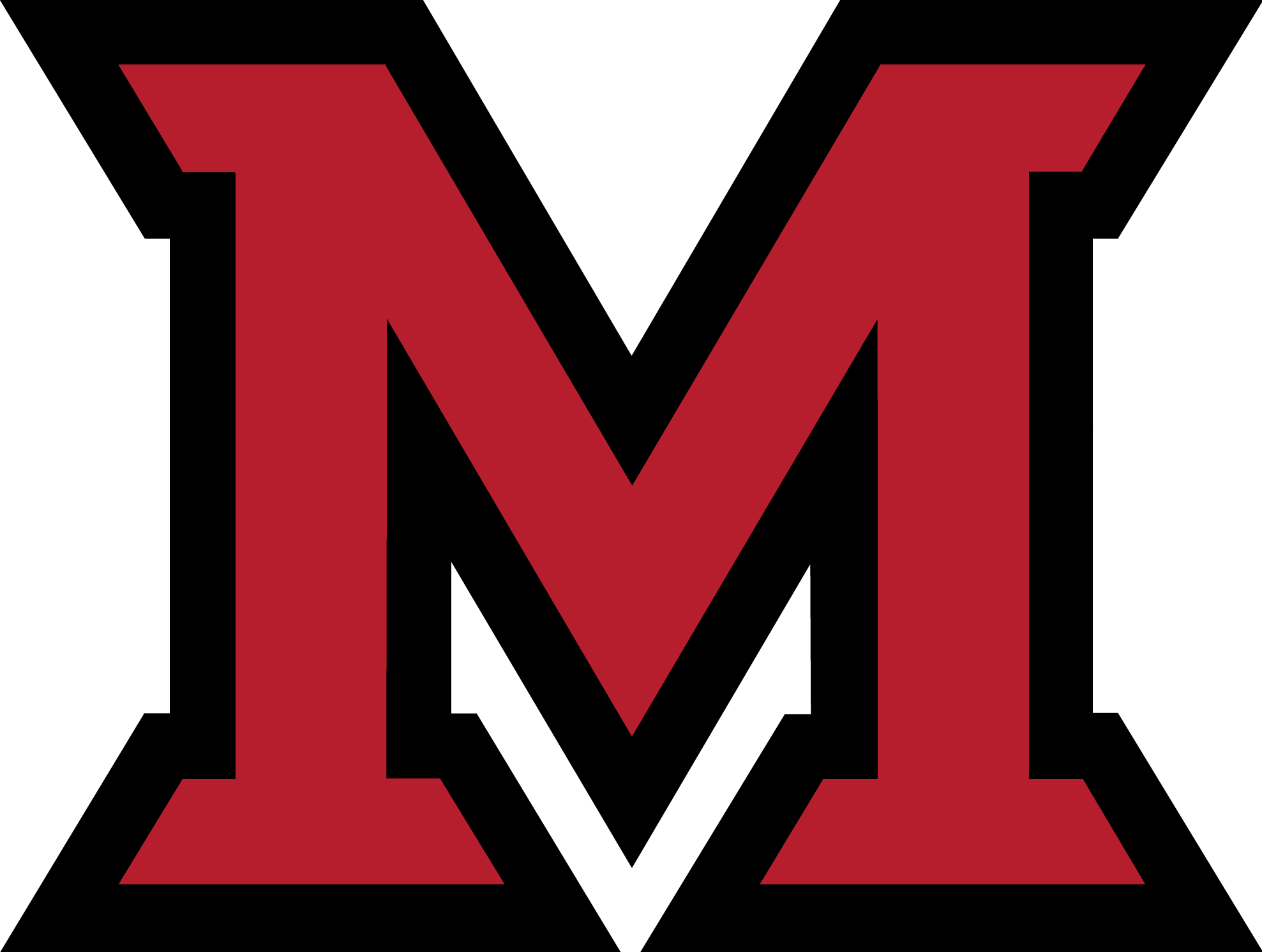 Miami (Ohio) Athletics wordmark